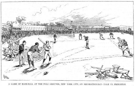 Scanned image of engraving from Harper's Young People, v. III (1882), p.524, won on ebay, now in my personal collection.